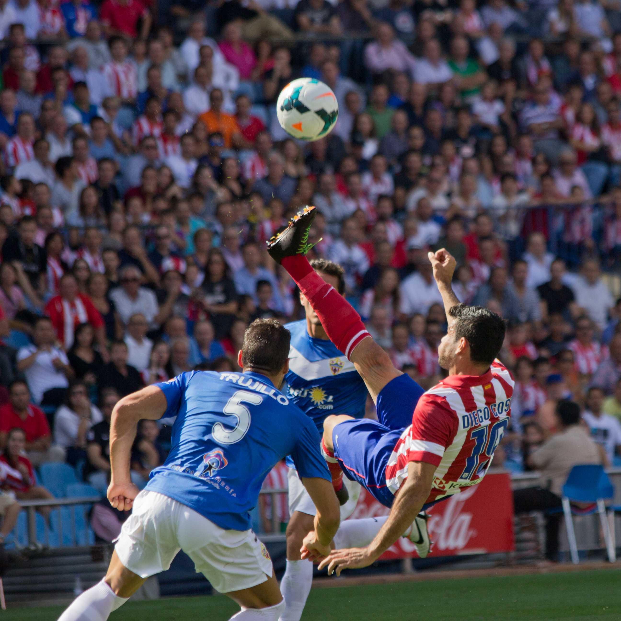 Diego Costa performing a bicycle kick while Ángel Trujillo is defending at the game Atlético de Madrid-Ud Almería.